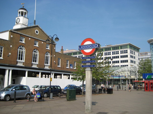 Uxbridge: High Street (2) 798869 to the left, 798673 to the right, and the sign for 798601 in the foreground, this used to be the main A40 London to Oxford road.